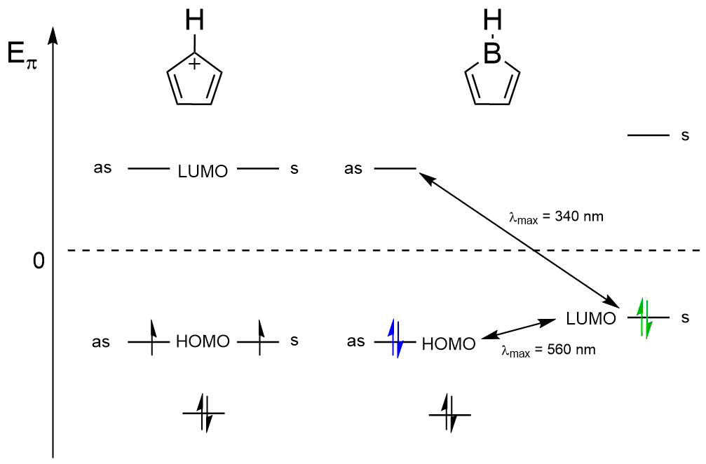 MO comparison